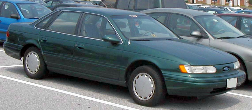 1994-1995 Ford Taurus sedan photographed in USA.